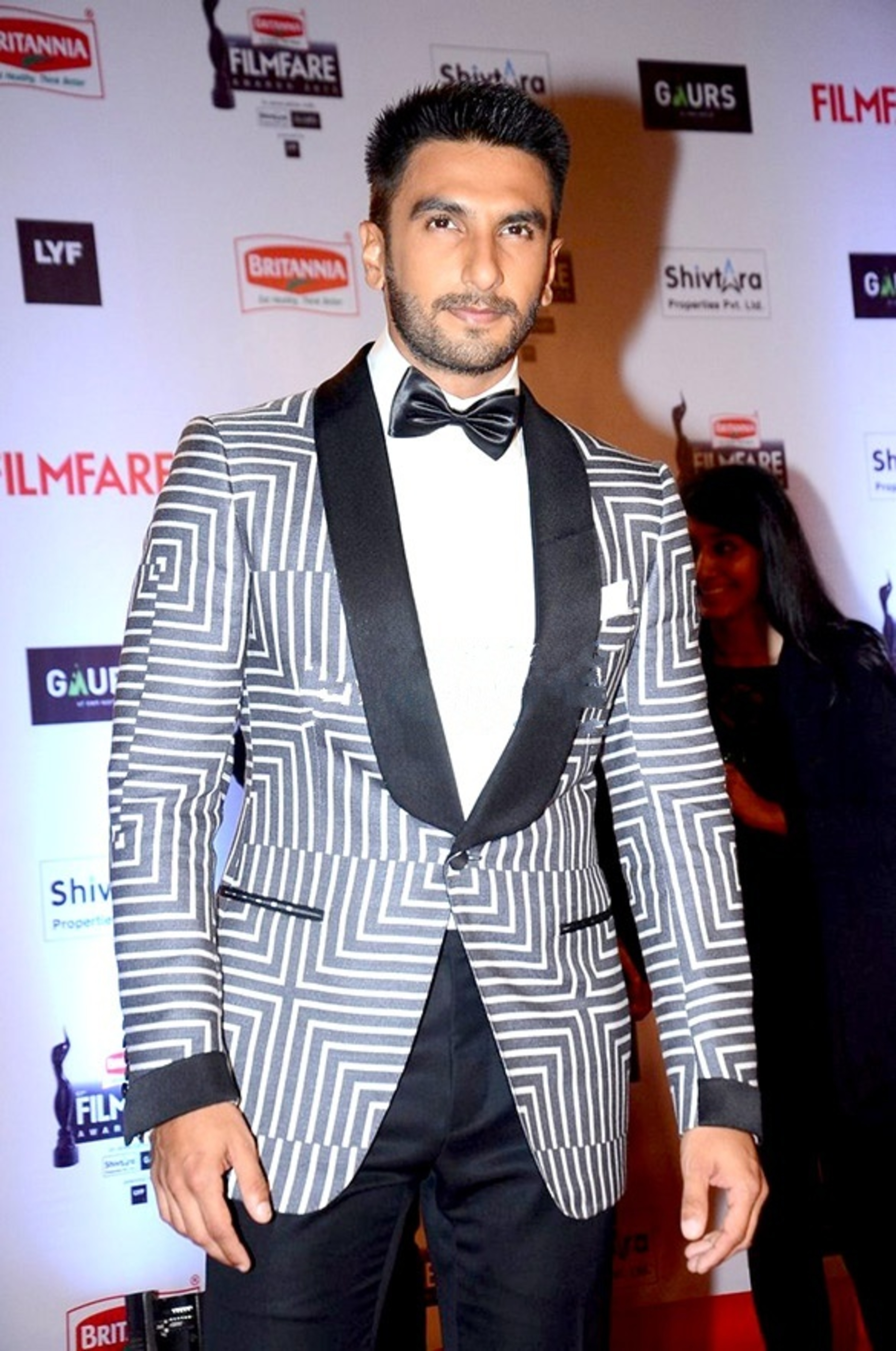 Ranveer Singh at 61st Filmfare awards 2016